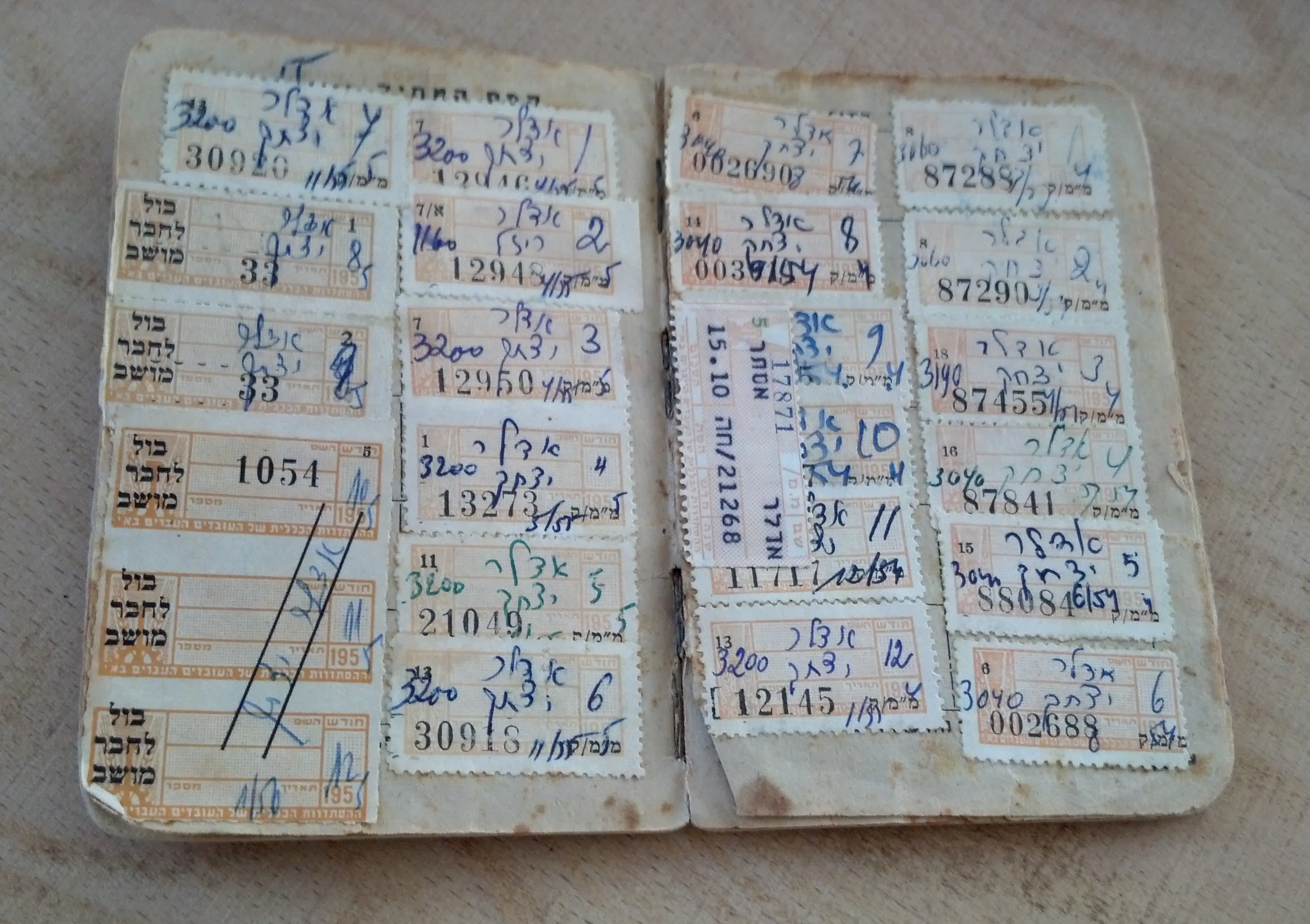 Health-care tax of the Hustadrut